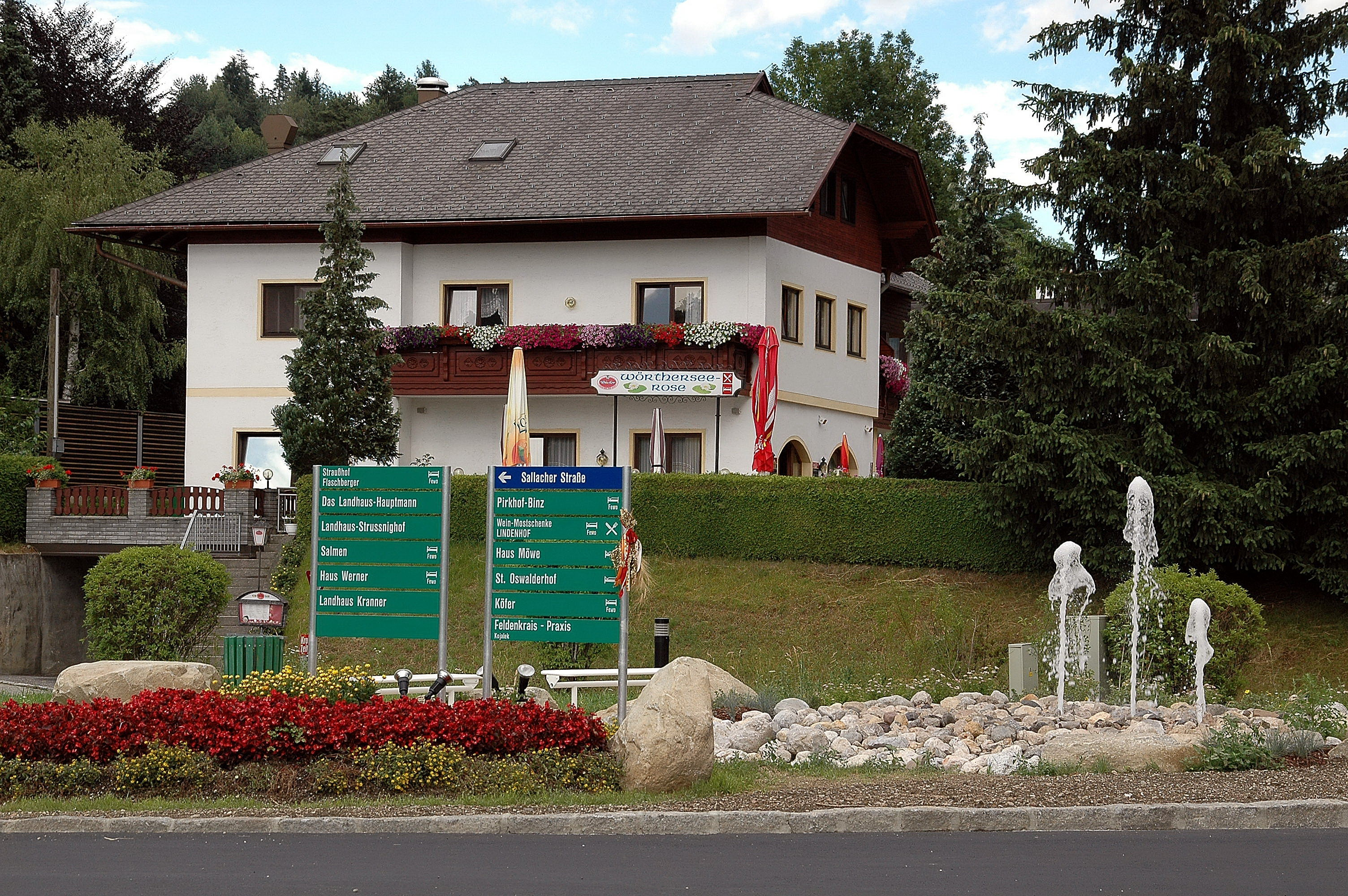 Fountain at Sallach, Poertschach on the Lake Woerth, district Klagenfurt-Land, Carinthia, Austria